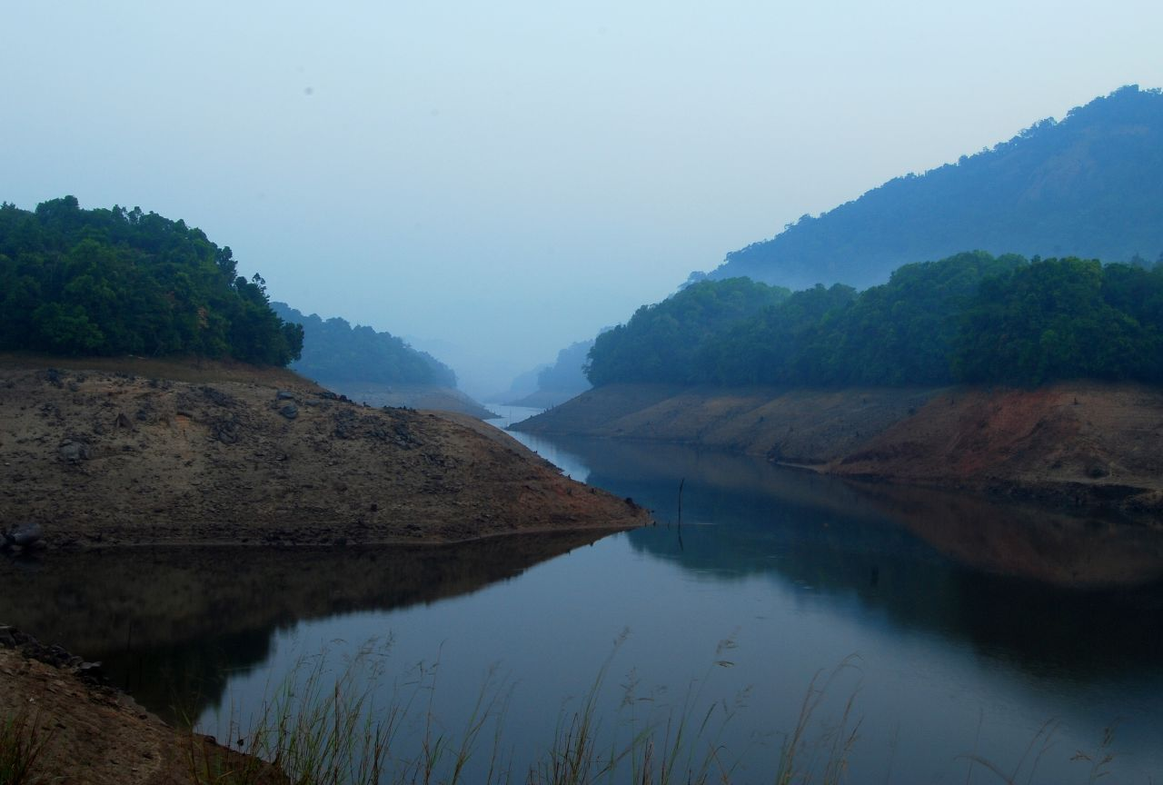 Kakkayam Dam Irrigation, Hydropower, Reservoirs of India